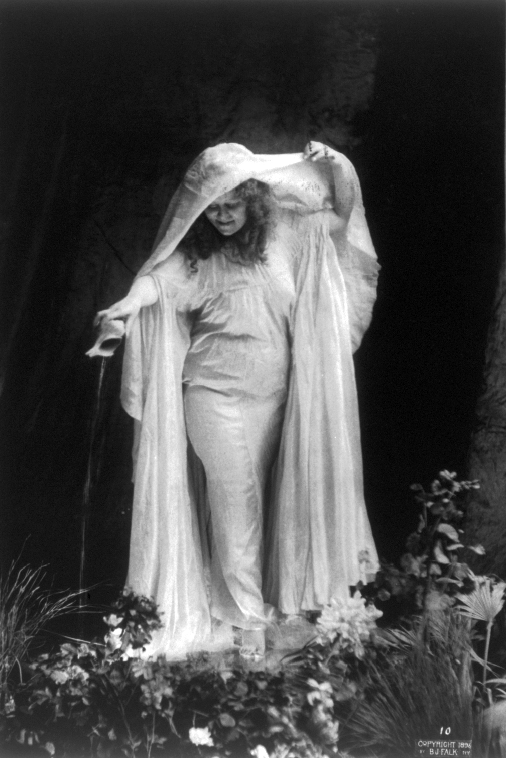 Loie Fuller, full length, standing, facing left; watering flowers